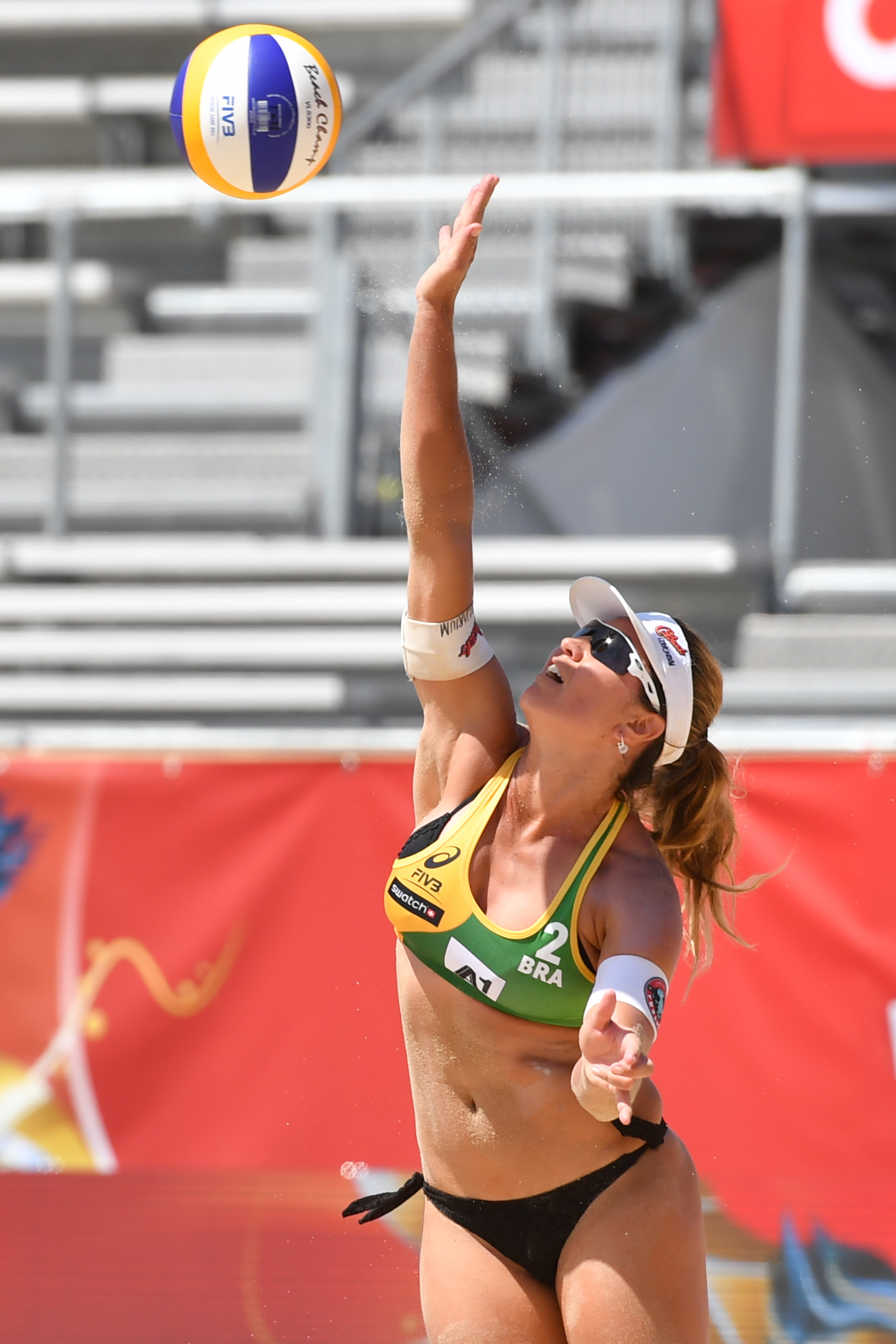 31/7/17, Vienna, Austria, sports, beach volleyball, FIVB Beach Volleyball World Championships.